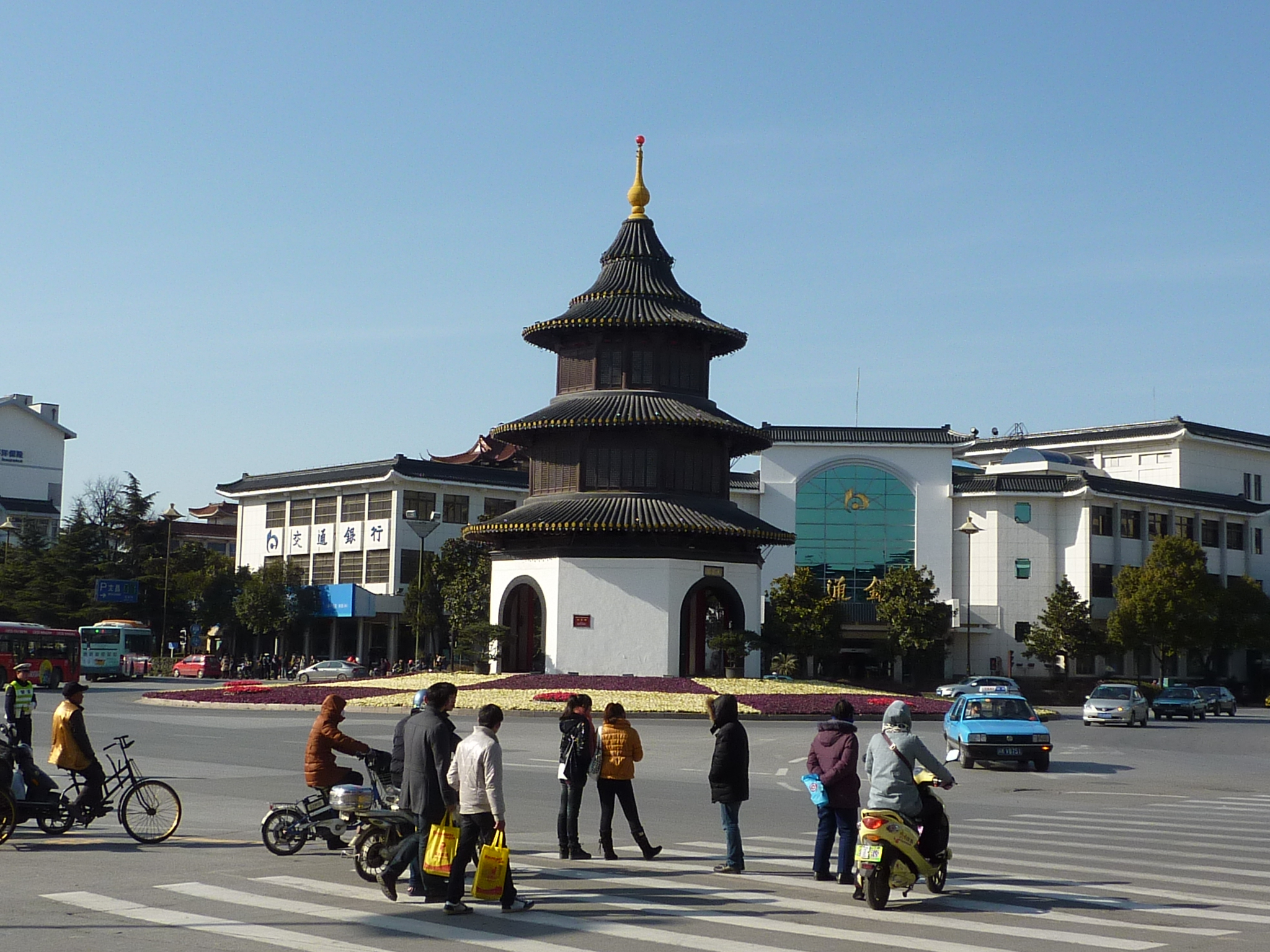 Yangzhou's Wenchang Pavilion, seen from the southeast